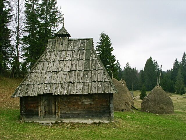 Folk architecture in Tara Mountain, Serbia